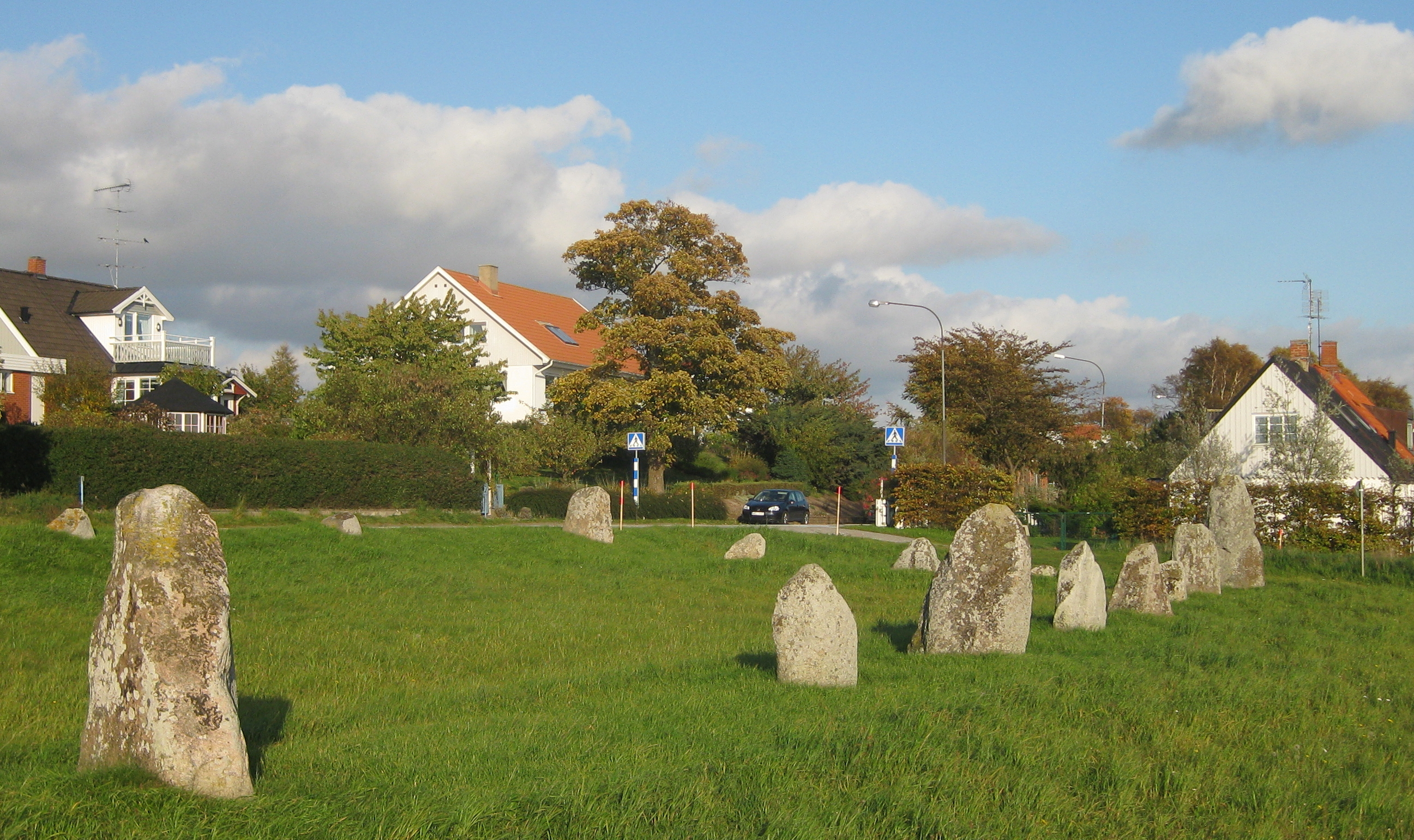 The ancient remains Disas thing in Svarte, Skåne, Sweden